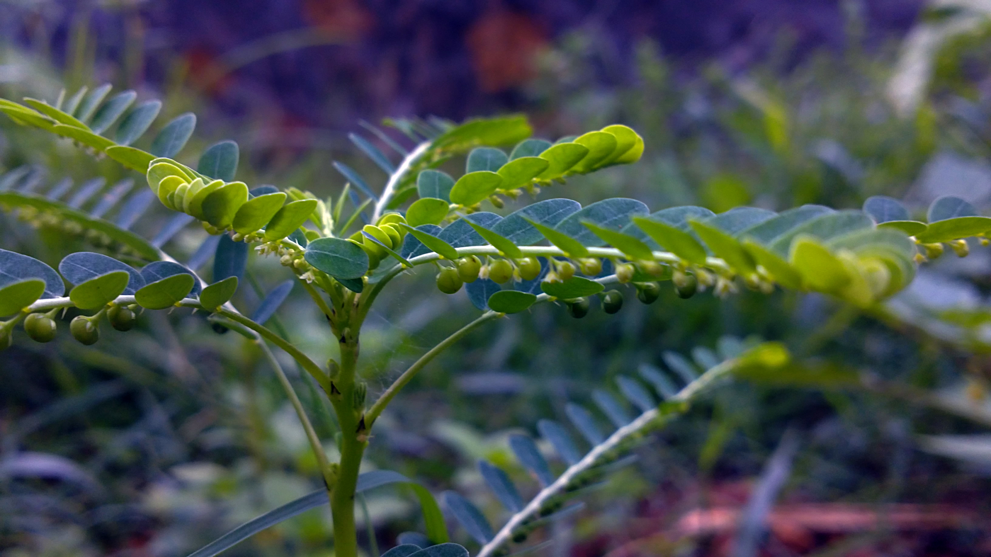 Phyllanthus niruri